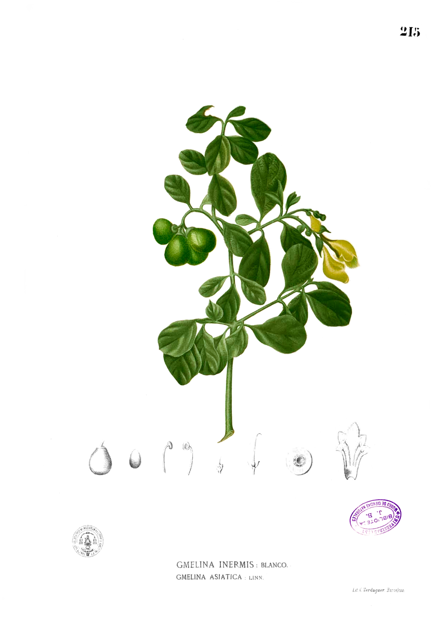 Plate from book